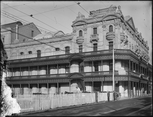 His Majesty's Theatre in Perth, Western Australia, in the late stages of construction.